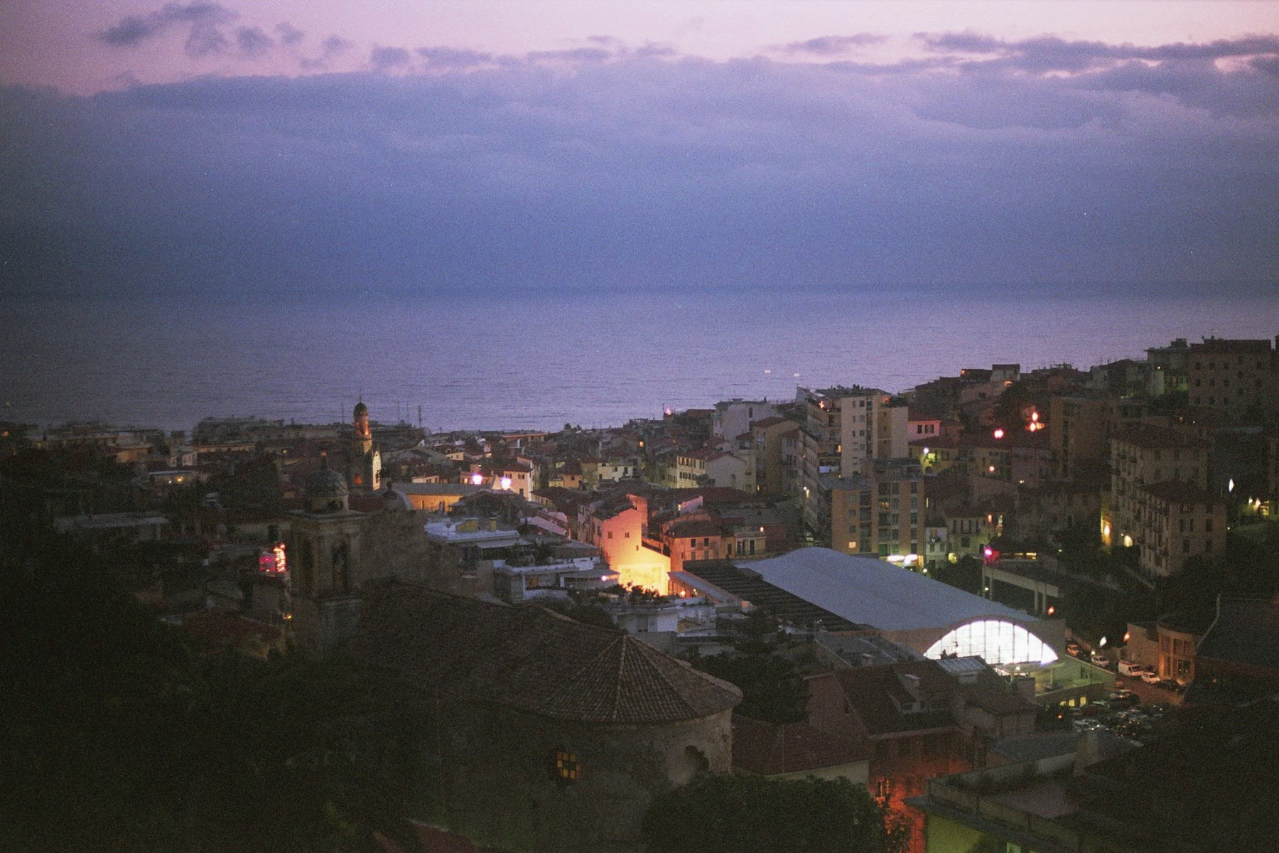 Twilight on the Ligurian coast, in Sanremo.